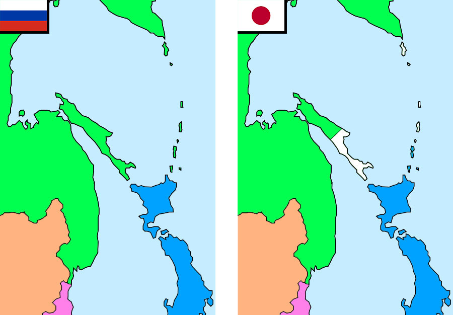 Map illustrating Russian and Japanese positions concerning Kuril islands dispute